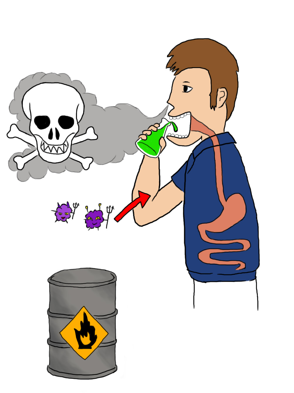 illustration of the types of chemical hazards